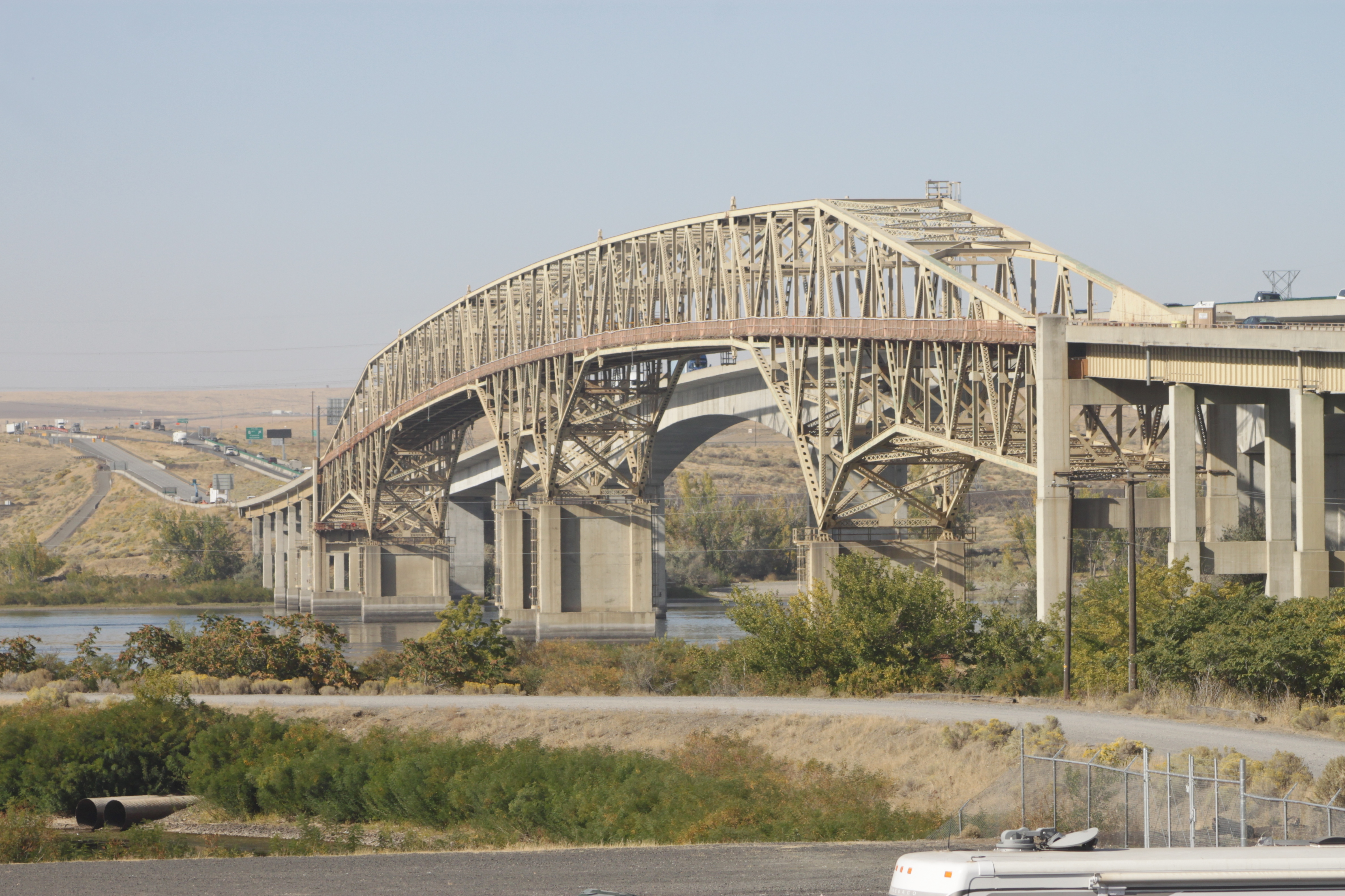 The Umatilla Bridge (built in 1955), as seen from the Oregon side of the Columbia River at a state visitor's center.